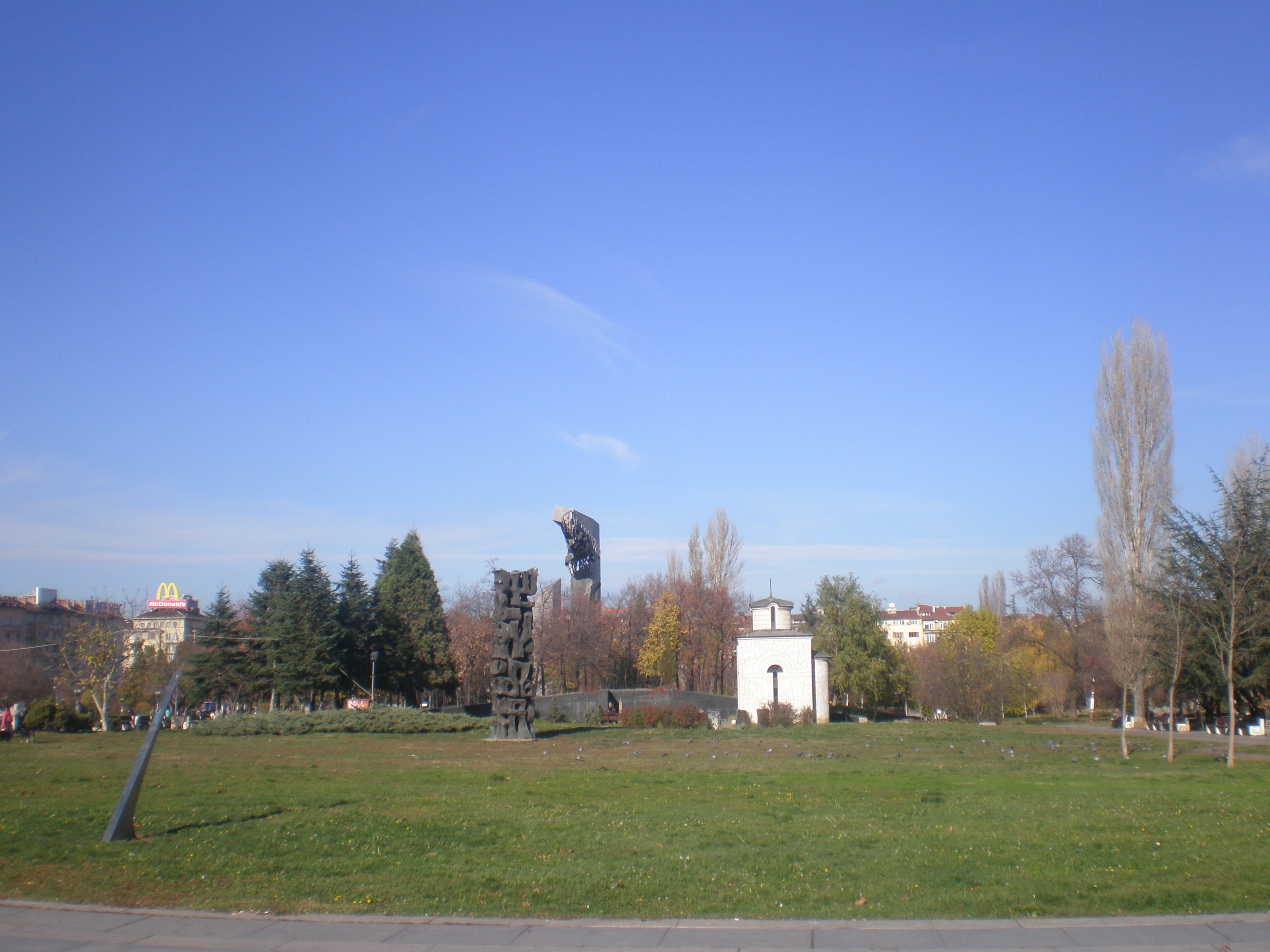 National Palace of Culture, Sofia